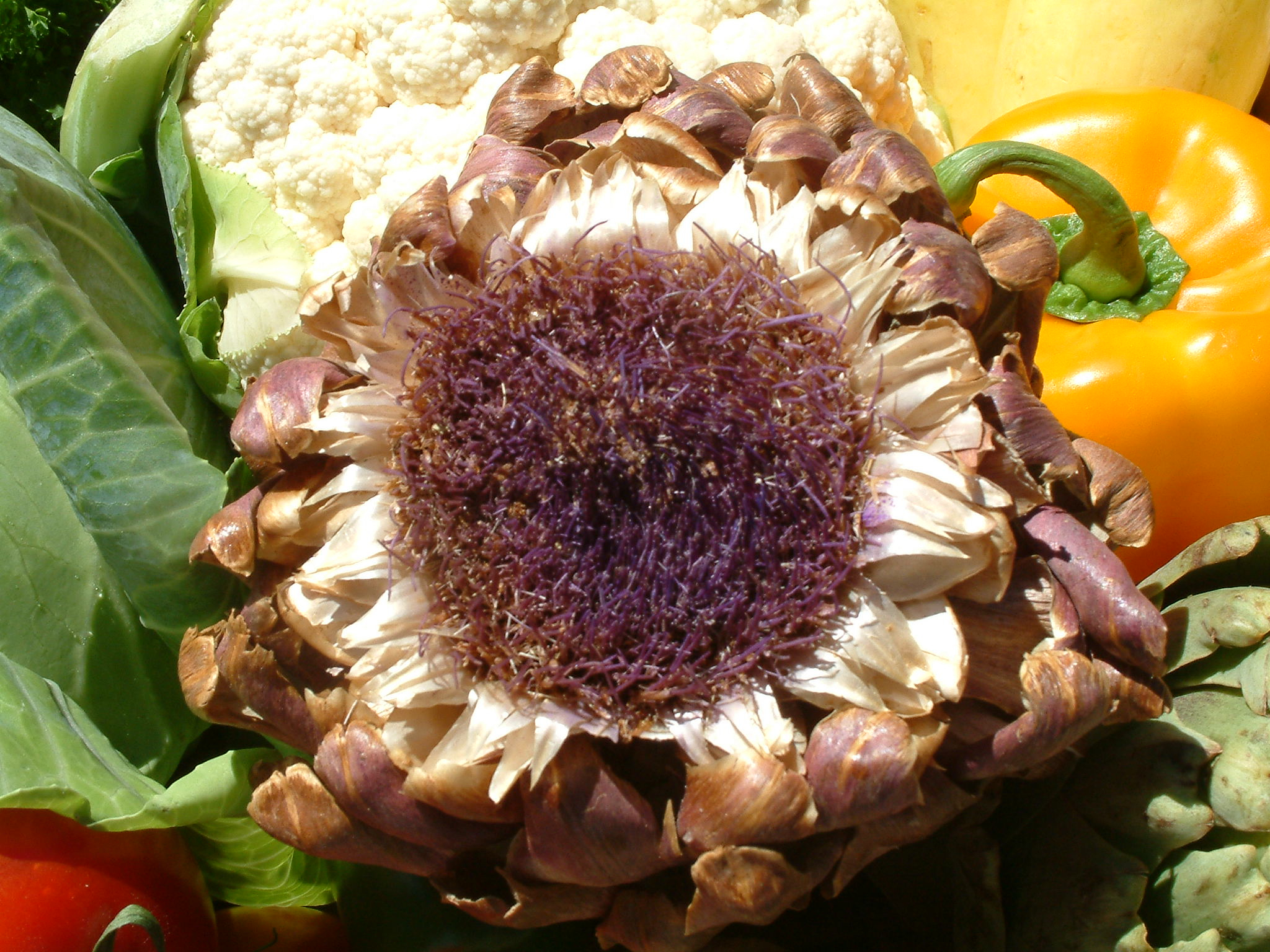 dried artichoke flower, yellow bell peppers